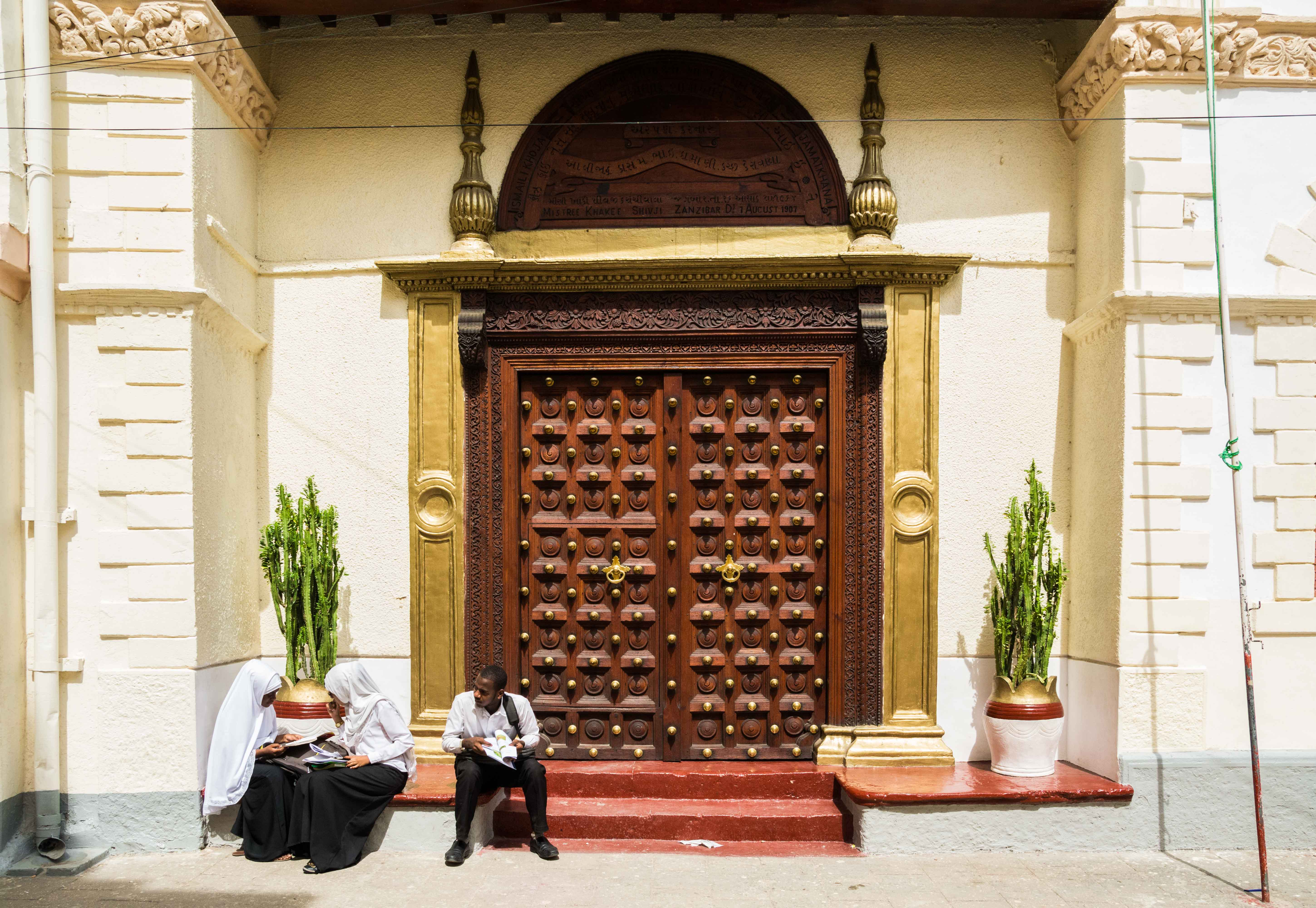 This is an image of Cultural Fashion or Adornment from Tanzania